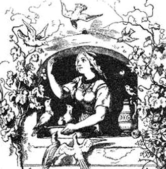 Cinderella drawing of Ludwig Richter (1803-1884)